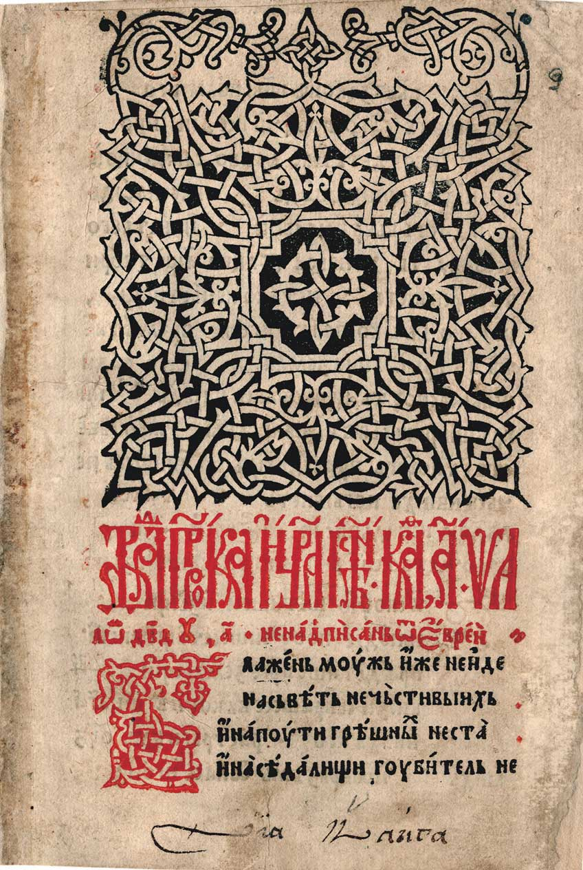 Folio 11 recto of the Goražde Psalter